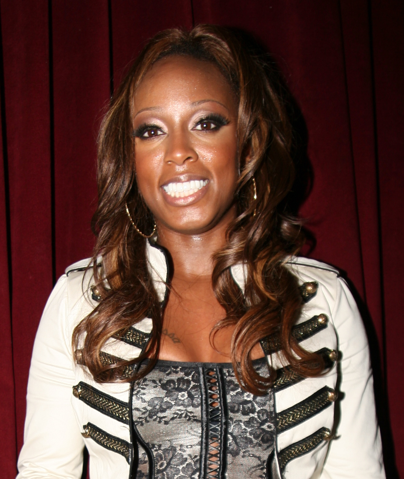 Sharissa in October 2005.